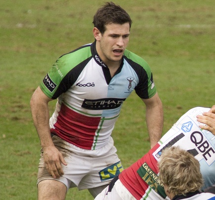 Bath Rugby vs. Harlequins